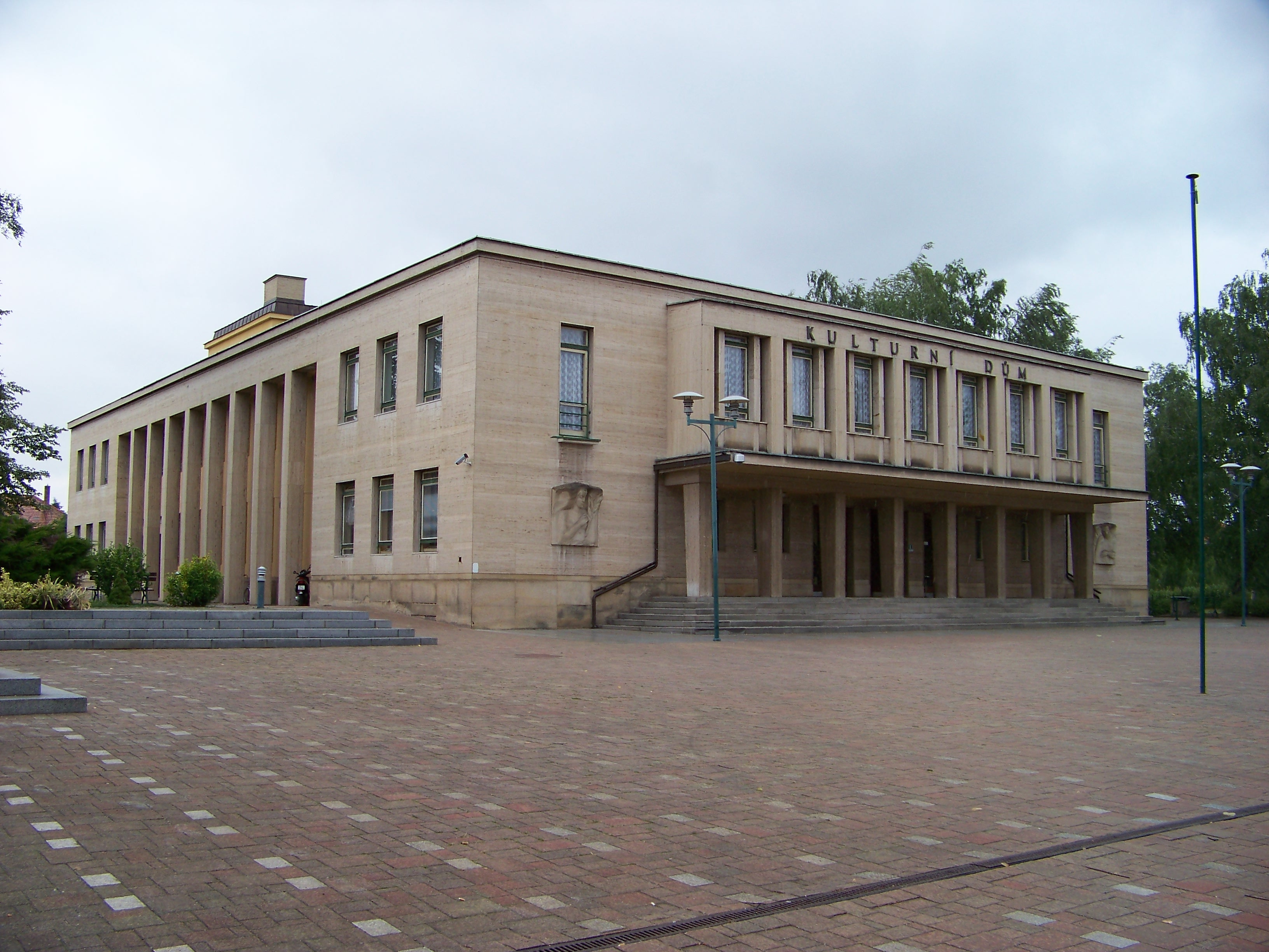 Holice, Pardubice District, Pardubice Region, the Czech Republic. Holubova street, a cultural house. - OpenStreetMap (Info)